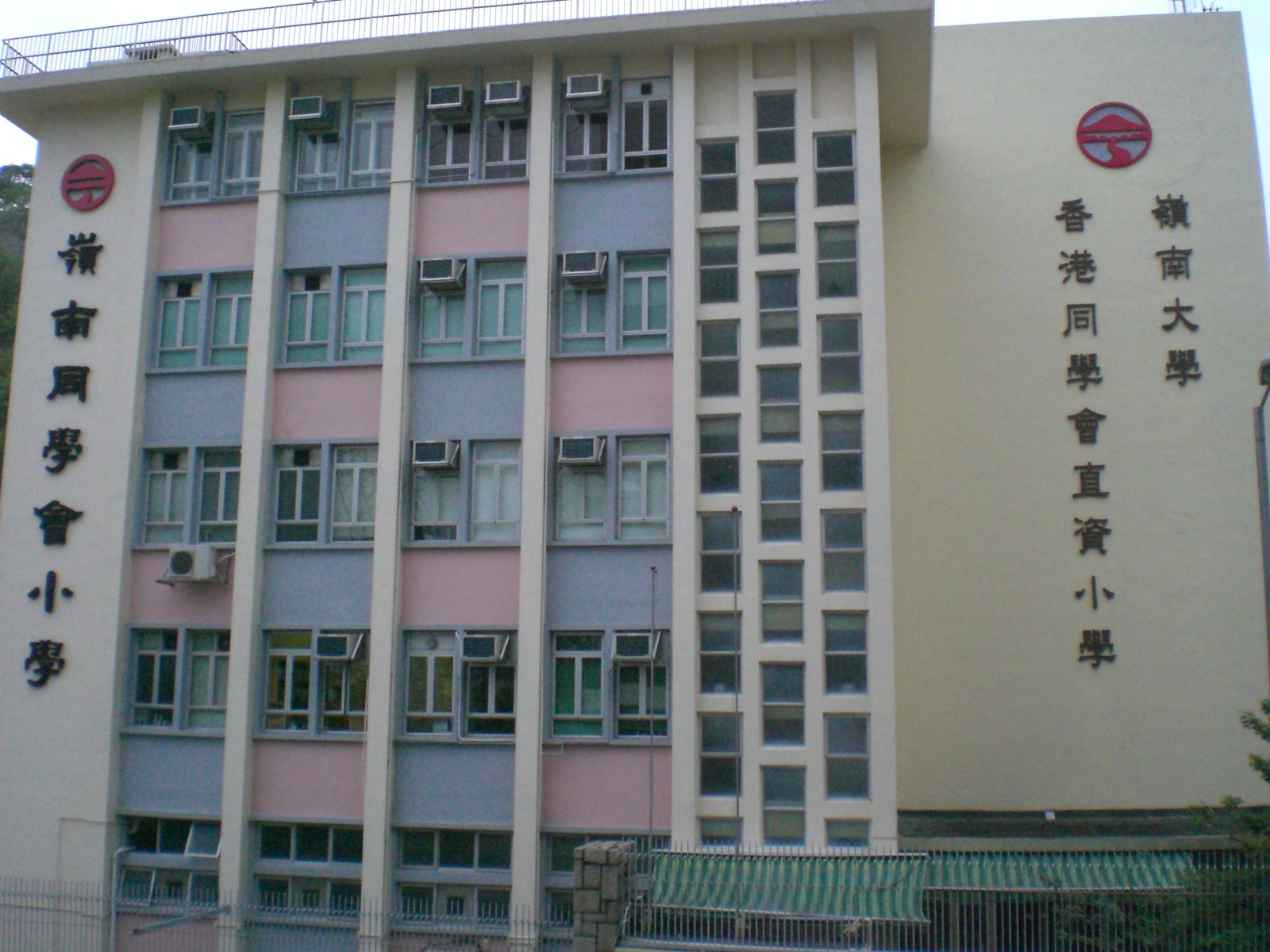 深水埗石硤尾zh:白田街, 嶺南同學會小學毗鄰賽馬會創意藝術中心, JCCAC.